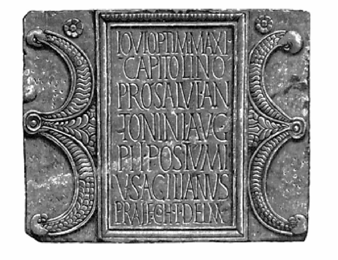 Altar dedicated to Jupiter Optimus Maximus Capitolinus by Postumius Acilianus, prefect of the First Cohort of Dalmatians. Lying on its face, covered by a quantity of stones, in a pit near the area in Maryport where the altars were found in 1870 (Senhouse Museum).